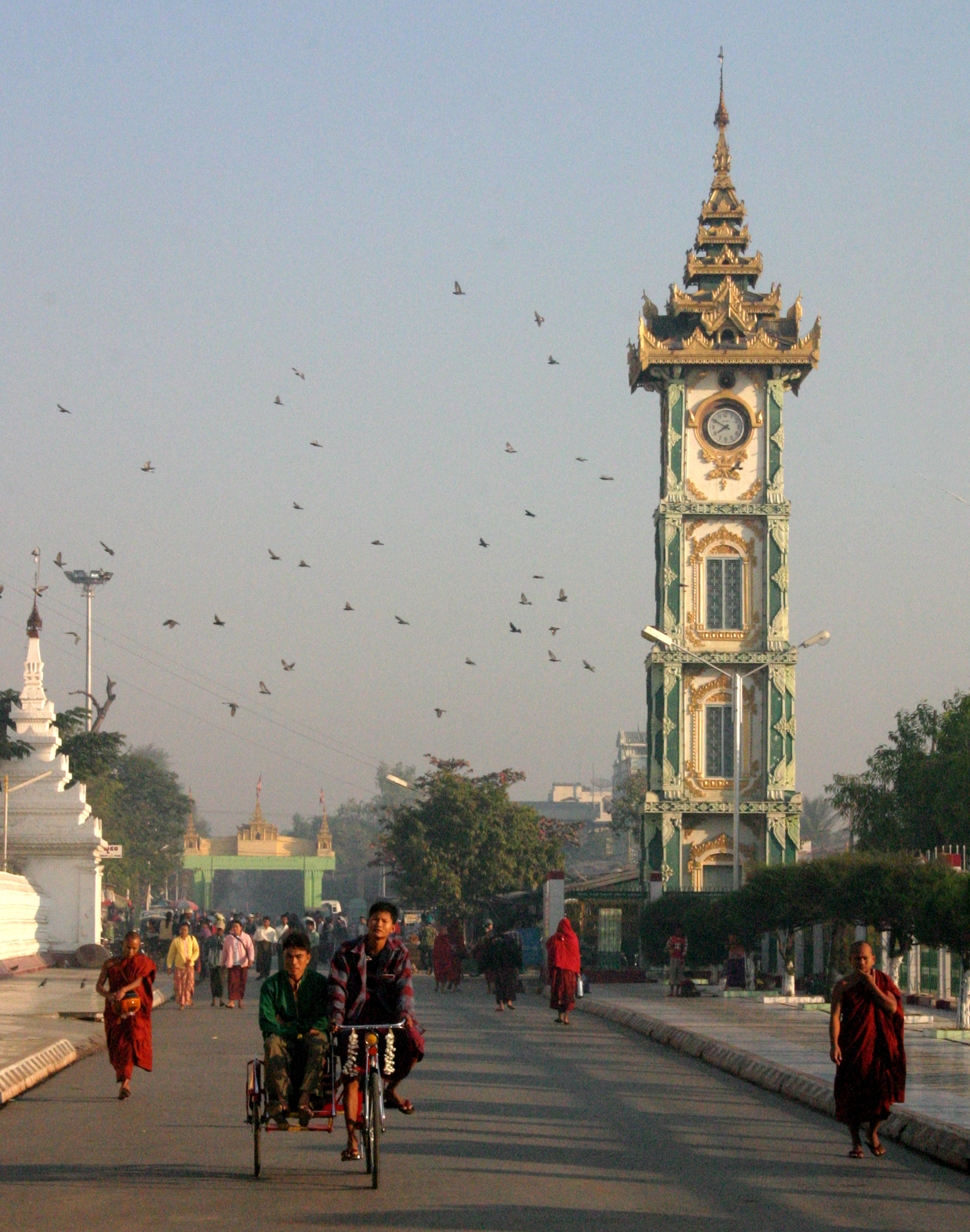 Mahamuni Pagoda in Mandalay in Myanmar.